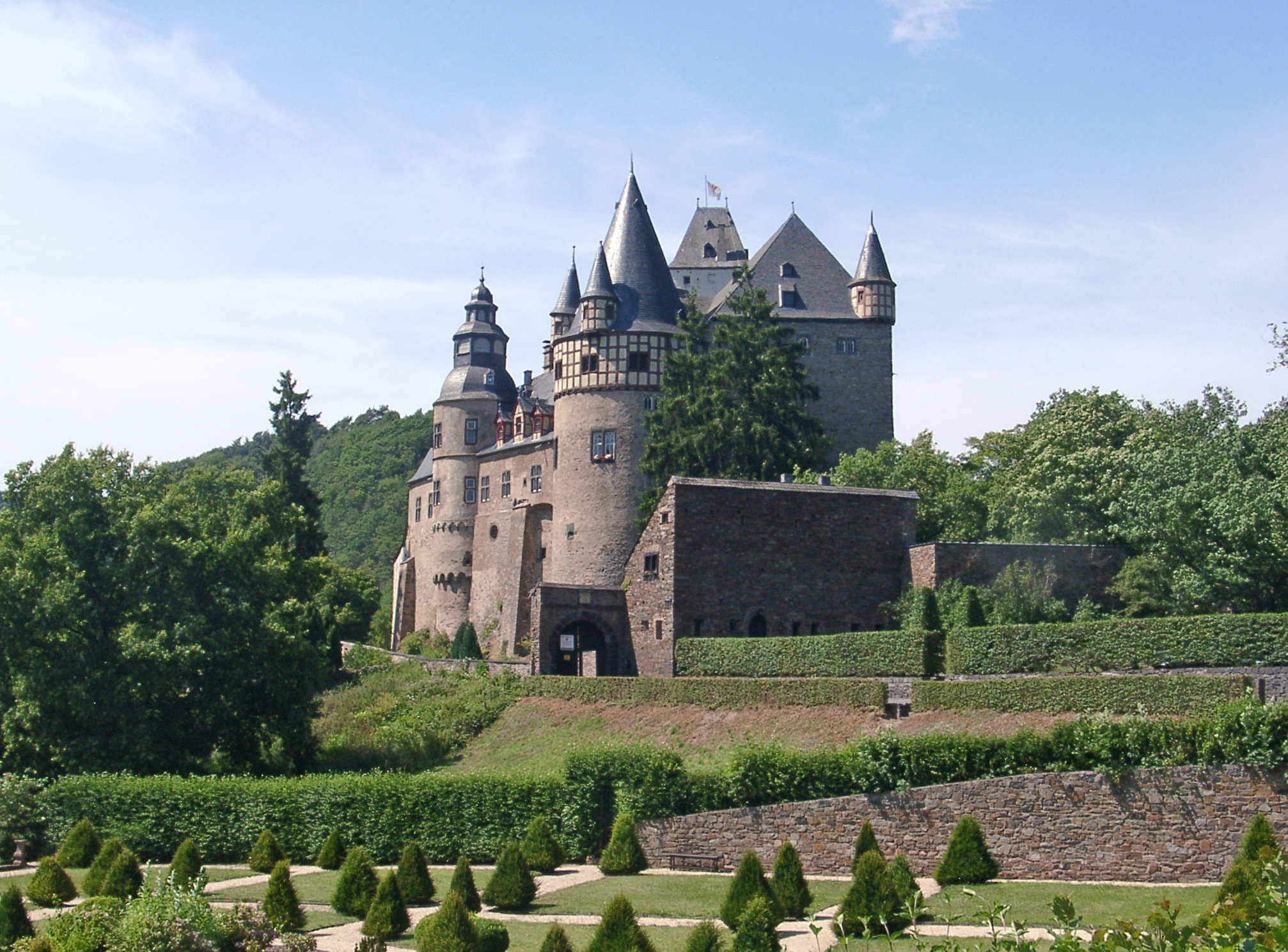 Buerresheim castle